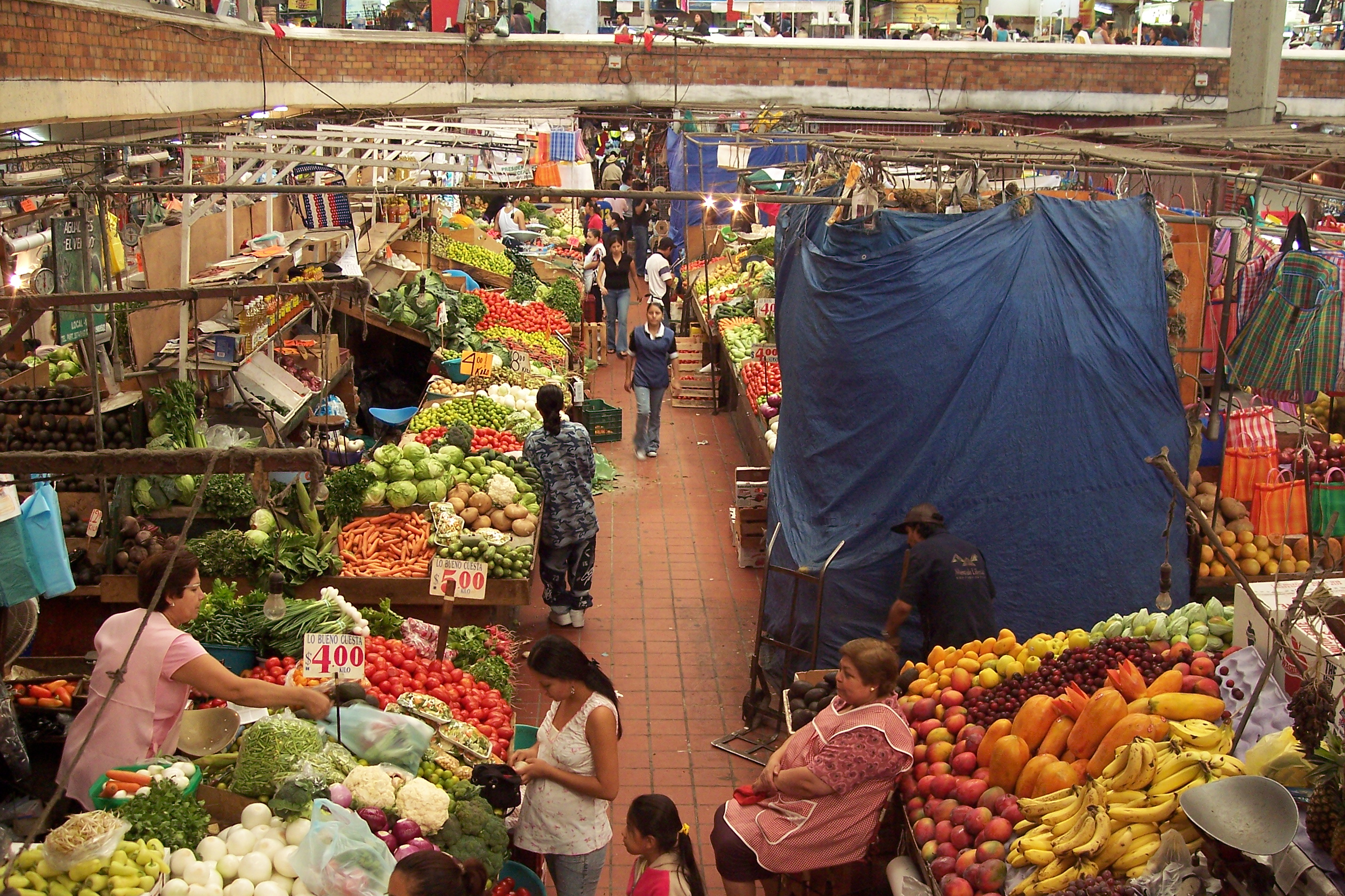 In the San Juan de Dios Market in Guadalajara